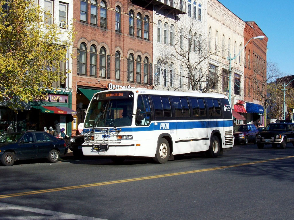 University of Massachusetts, Amherst shuttle #3101, operated by a student worker for the school, runs on the #39 line in Northampton, MA.